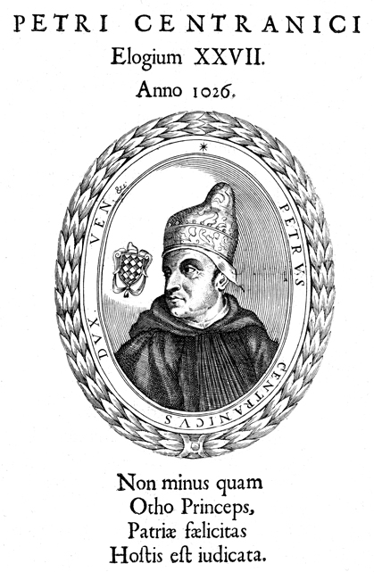 Pietro Barbolano (sometimes Pietro Barbo Centranigo) was the 28th Doge of Venice.